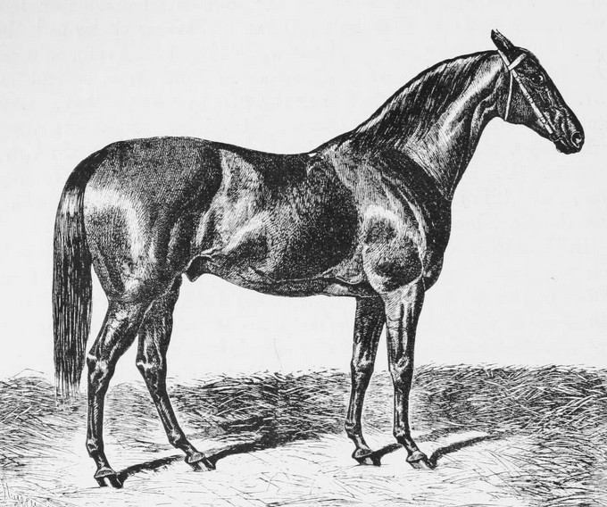 Vedette